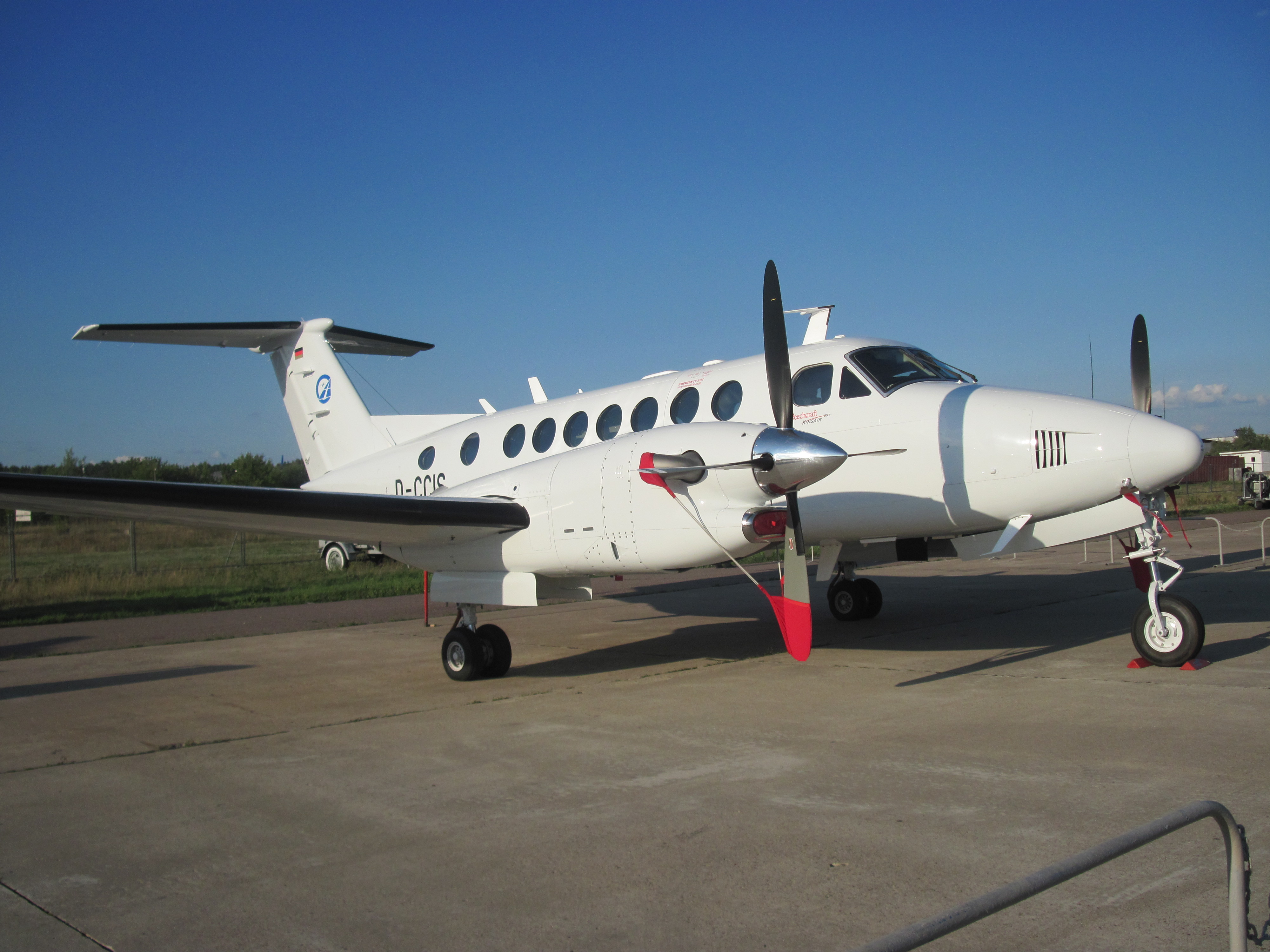 Hawker Beechcraft King Air 350i (B300) at the MAKS Airshow 2011.